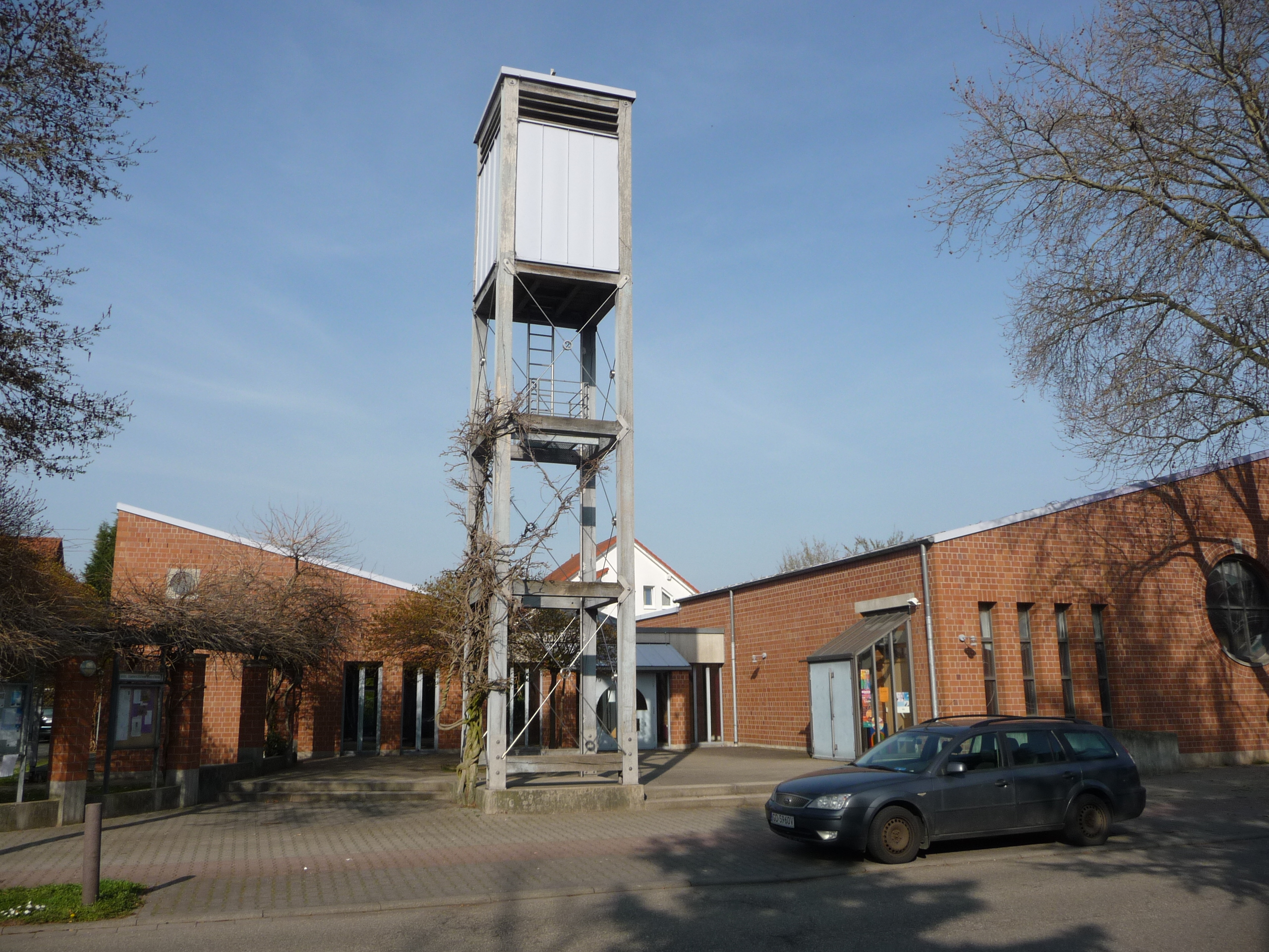 Maria-Königin-Kirche (Mannheim)